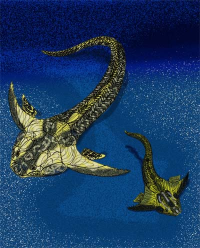 Reconstruction of the petalichthyid placoderms Lunaspis broili (larger) and Lunaspis heroldi (smaller), from the Early Devonian Hunsruck Fauna of Germany.